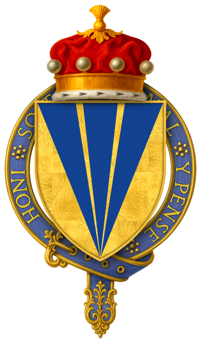 Coat of Arms of Sir Guy de Bryan, 1st Baron Bryan, KG “Guy Lord Bryan… Arms: Or, three piles, conjoined in base, Azure.” BELTZ, George Frederick, Memorials of the Order of the Garter from Its Foundation to the Present Time, London: William Pickering, 1841.